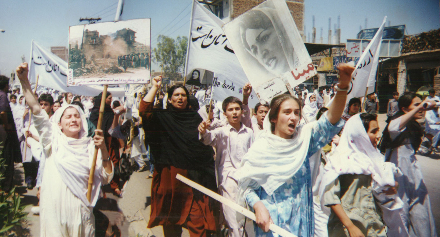 Demonstration of the Revolutionary Association of the Women of Afghanistan (RAWA) in Peshawar, Pakistan to condemn the 6th black anniversary of swarming of fundamentalists into Kabul, April 28,1998